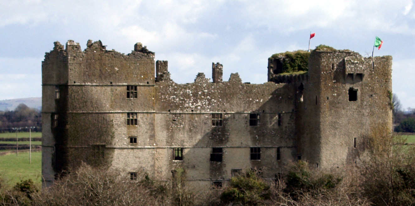 Loughmore (or Loughmoe) Castle, Loughmore, Templemore, County Tipperary, Ireland as seen from grounds of Catholic Church of the Nativity of our Lord, Loughmore Village, Templemore, County Tipperary, Ireland